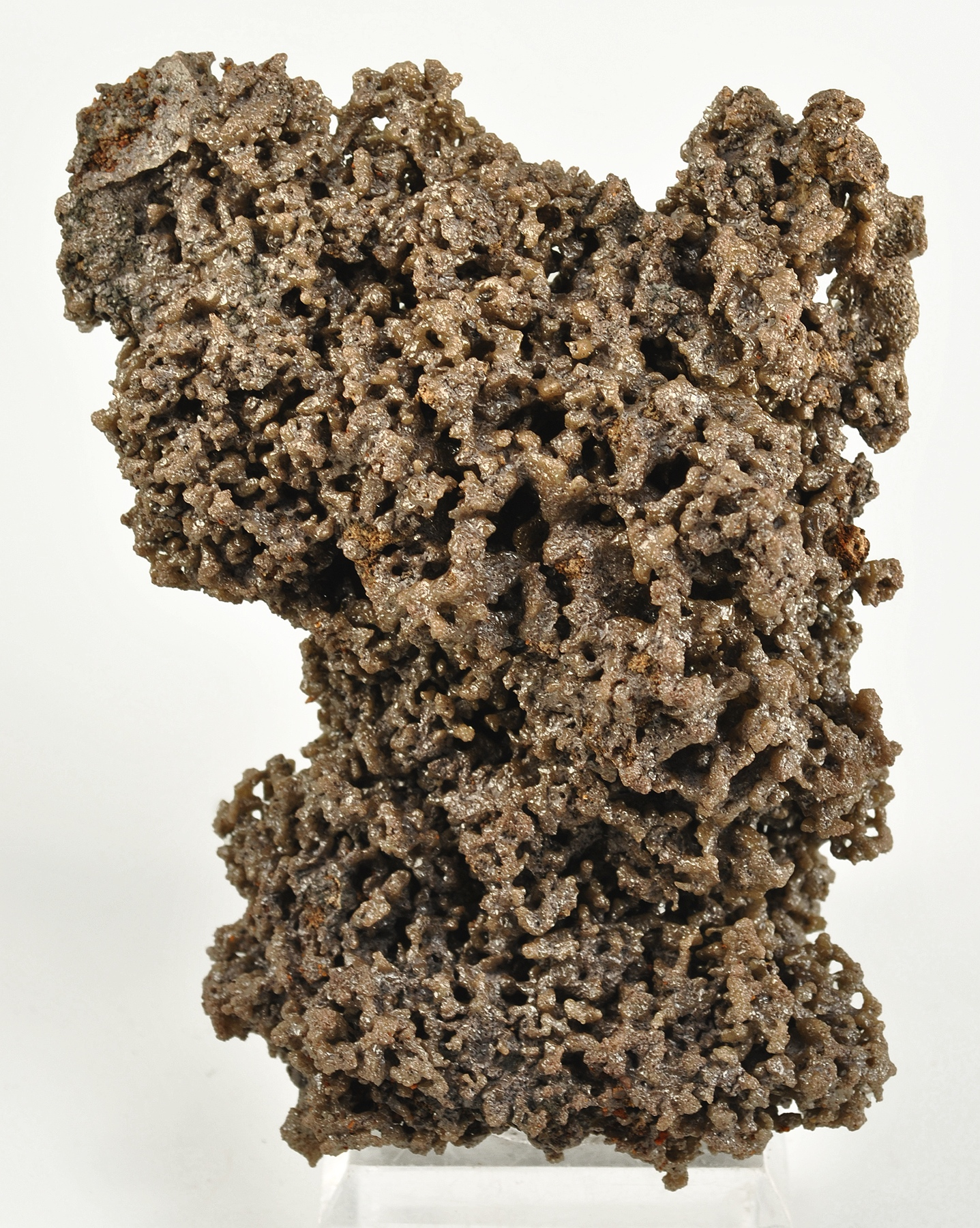 Embolite Locality: Block 14 Opencut, Broken Hill, Yancowinna County, New South Wales, Australia (Locality at ) Size: cabinet, 11.8 x 9.0 x 4.8 cm Embolite (Bromian Chlorargyrite) Embolite, once a valid species, is today called Bromian Chlorargyrite. This VERY LARGE, 330-gram specimen of intergrown "embolite" is a superb and large example for these old finds. It is from the Eric Asselborn Collection, and he got it from an heir of part of the Albert Chapman Collection after Chapman passed away. It is richly 3-dimensional and attractive, as these go.